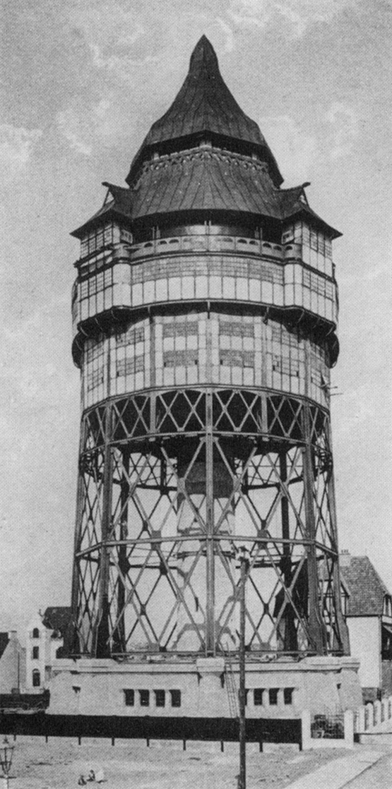 The former water tower in Bremen-Walle, Germany. Built in 1905 and destroyed in 1944 by an air raid.